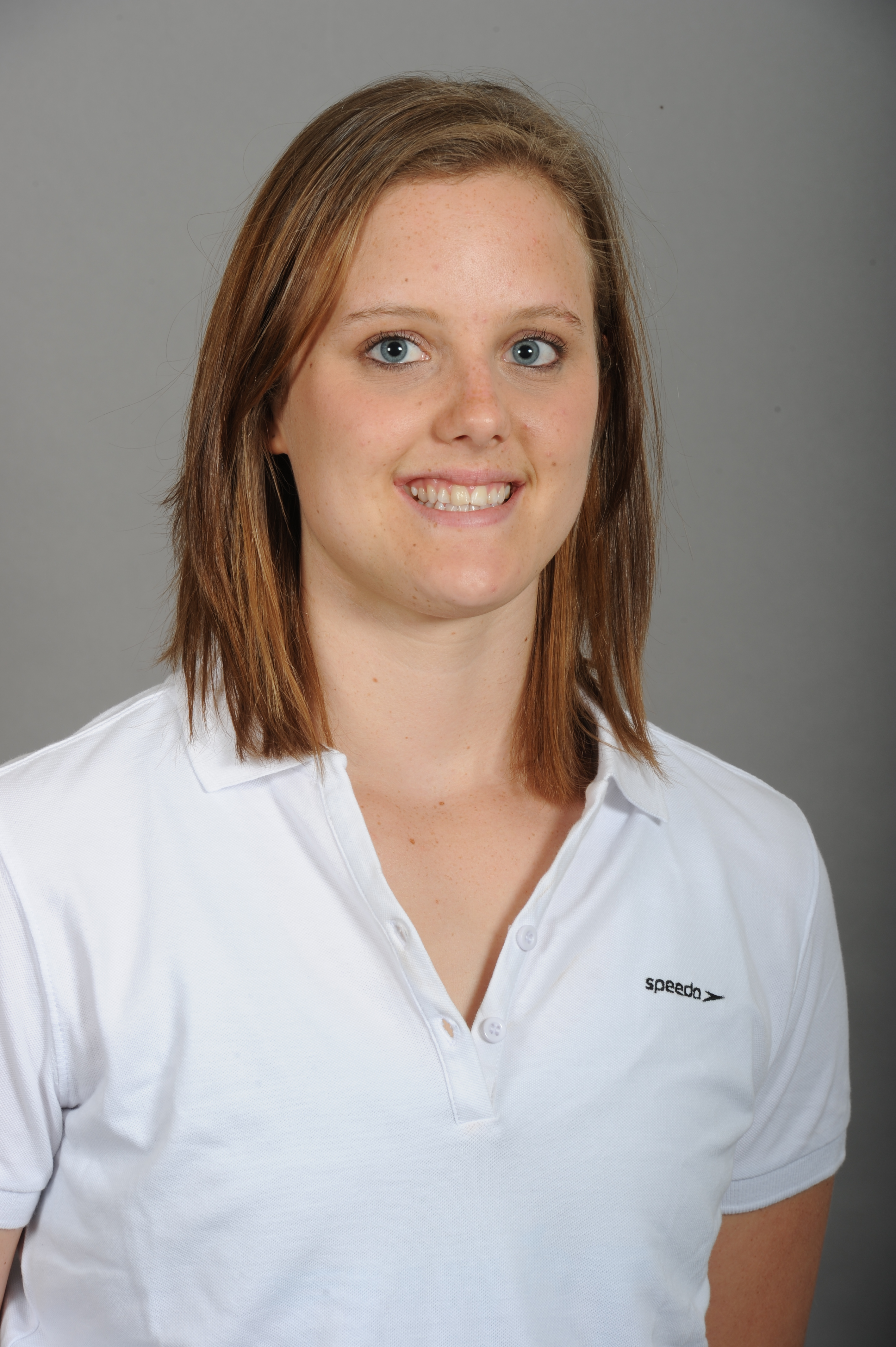 Ellie Cole Paralympian